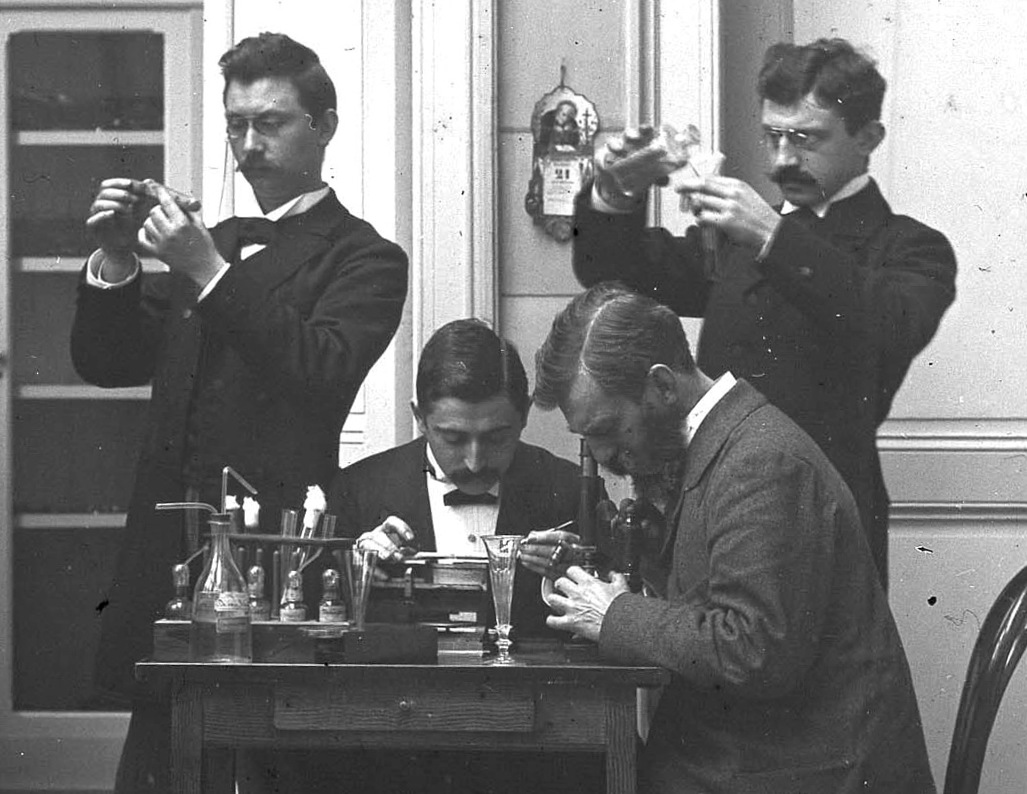 Doctors posing in the laboratory of Calvariënberg Hospital in Maastricht, Netherlands. The doctors are: M.H. Timmers, J.W.M. Indemans, Lambert van Kleef en J.J.L. van der Horn van den Bos. The photograph was taken in 1895-96 by dr. Lambert Th. van Kleef, a famous surgeon in his time who was director of Calvariënberg from 1881 until 1904. He was also a dedicated photographer. Collection of RHCL, Maastricht, ref. nr. VKG 084.